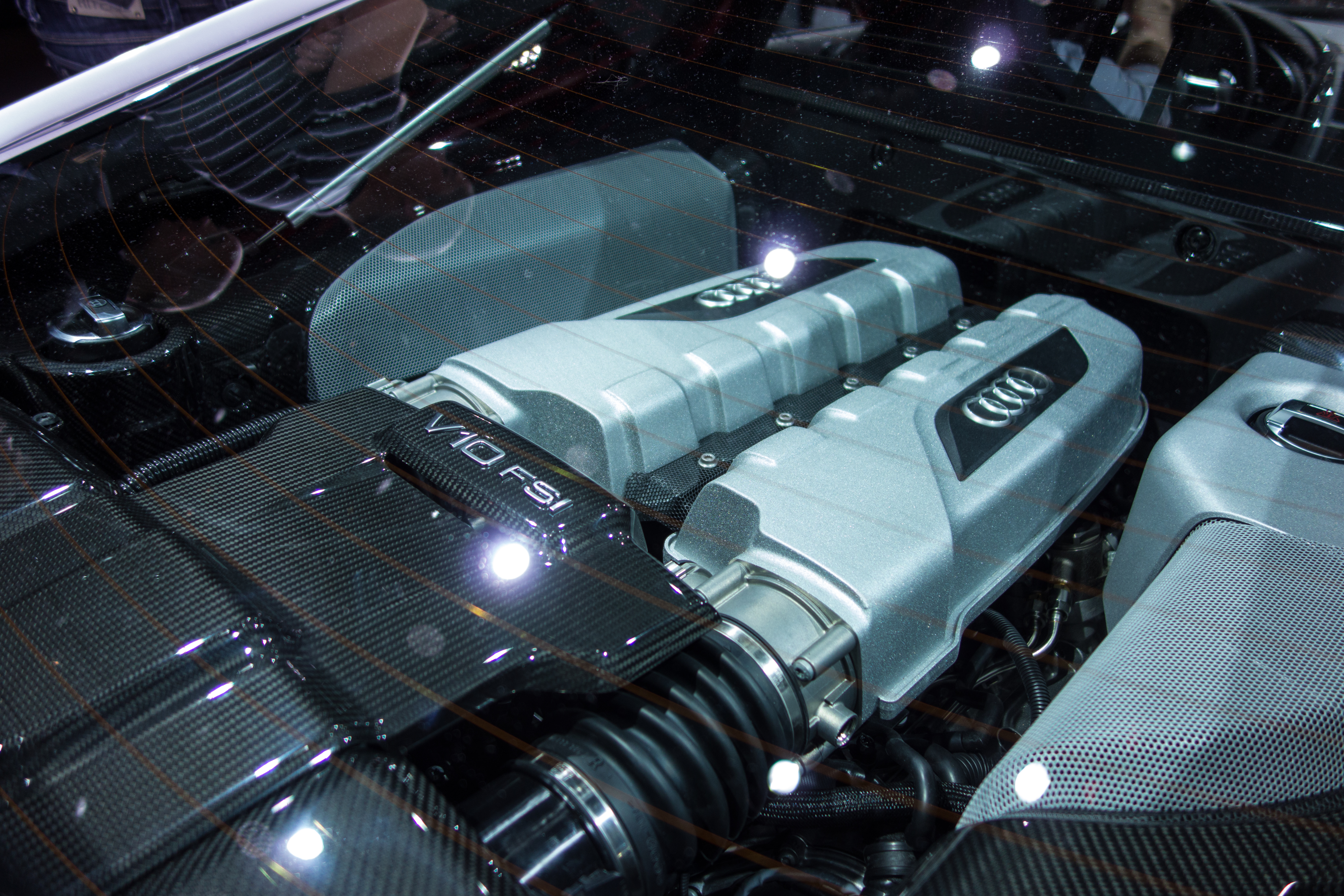 Mondial De L'automobile Paris 2012 | Paris Motor Show 2012